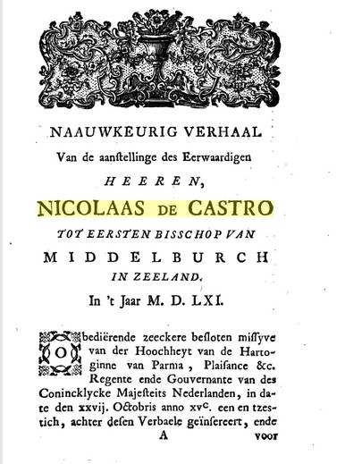 Naauwkeurig verbaal van de aanstellinge des ... Heeren Nicolaas de Castro ... Quintyn WEYTSEN, Nicolaas de CASTRO (Bishop of Middelburg.), Frans van MIERIS (the younger), 1757